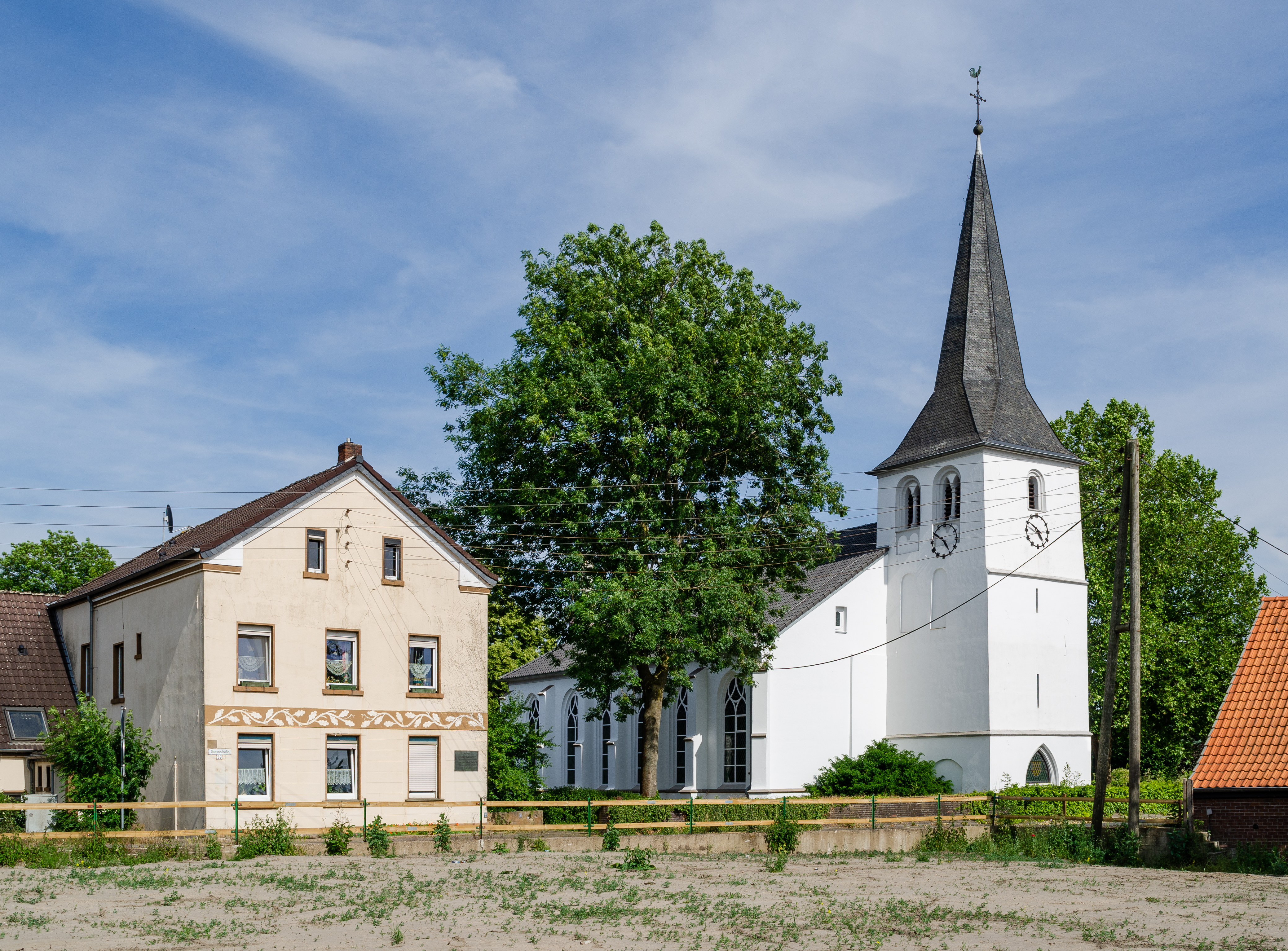 Voerde (North Rhine-Westphalia, Germany) – district Götterswickerhamm – Protestant Church